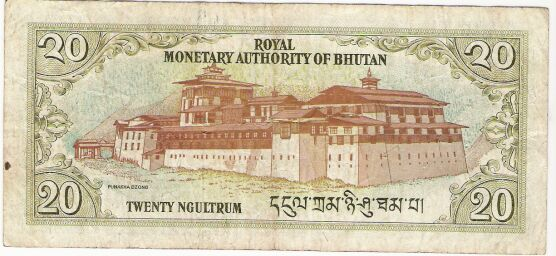 From a travel in Bhutan.